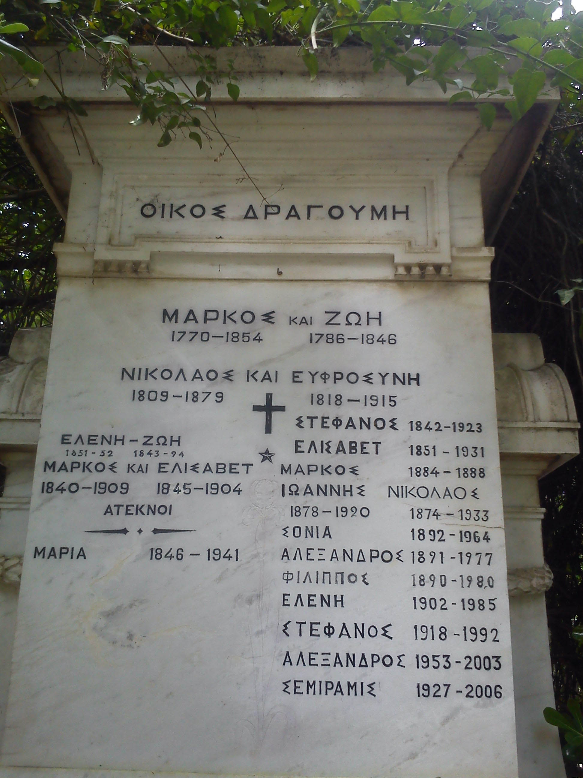 The tombstone of the Dragoumis family, 1st Cemetery of Athens, Greece